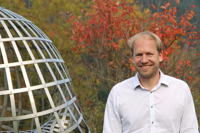 Sager at the Oberwolfach workshop Mixed-integer Nonlinear Optimization: A Hatchery for Modern Mathematics in 2015